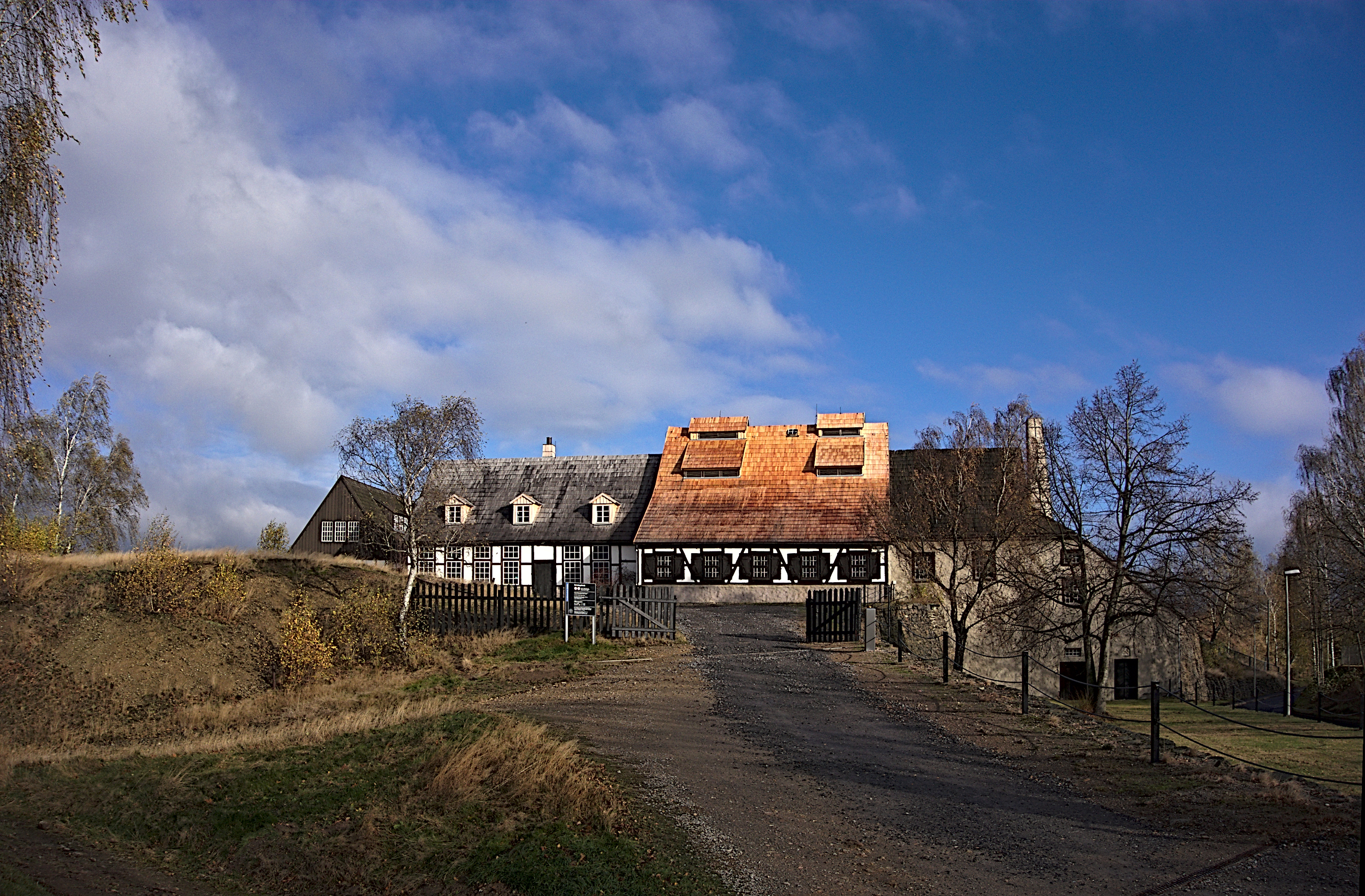 Buildings of the mine shaft "Alte Elisabeth"